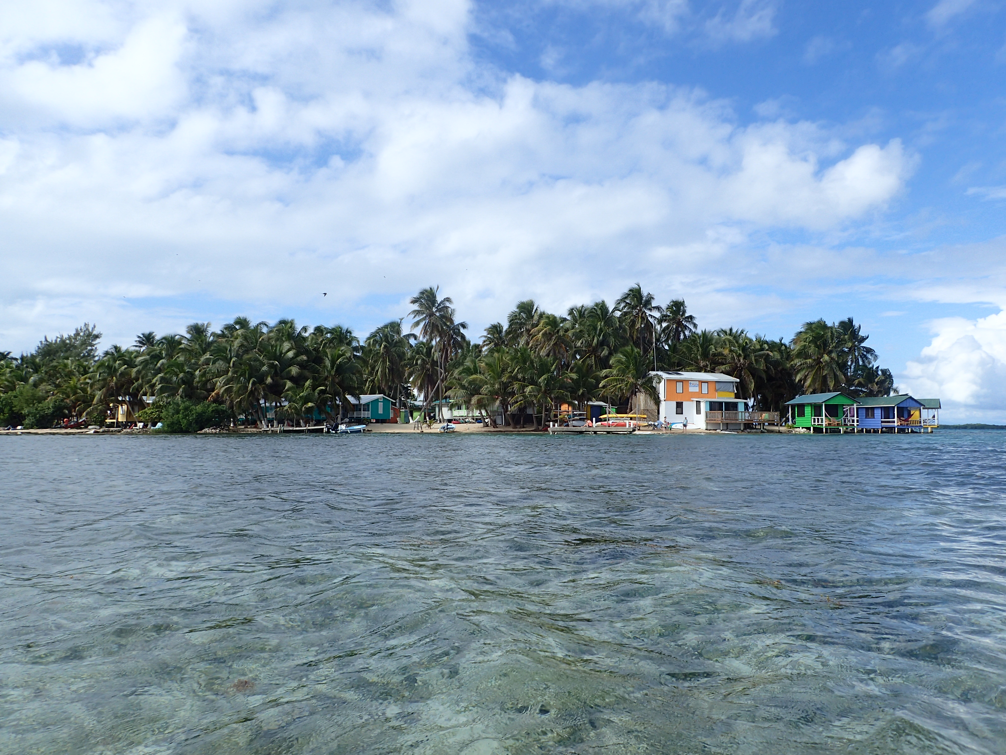 The north end of Tobacco Caye, Belize, as viewed from the east